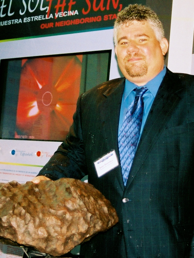 Sixto A. Gonzalez at the Arecibo Observatory Visitor Center Saturday November 1st, 2003 on the occasion of the 40th anniversary of the Observatory. Photo by Aida Albo